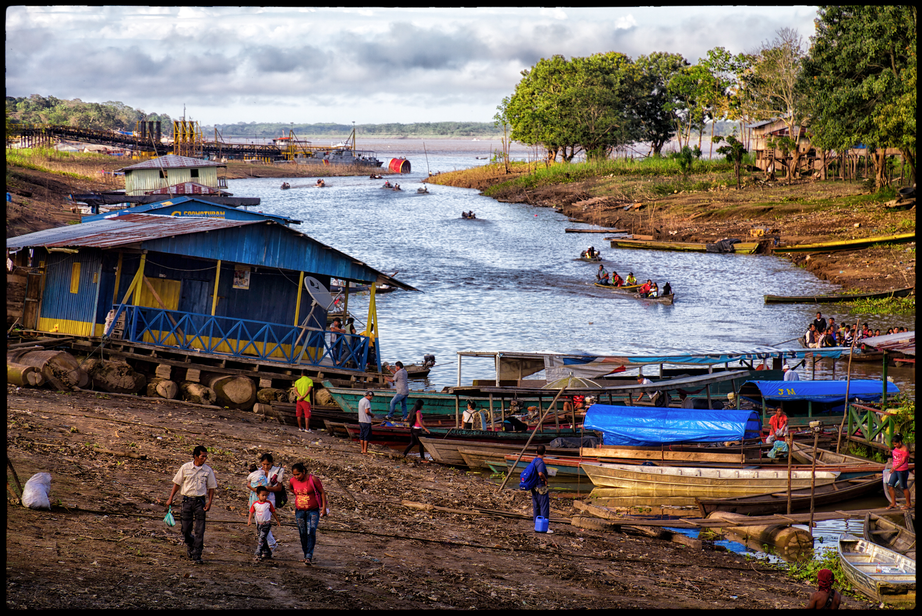 Harbor in Leticia to start your visit to the Amazon river in Colombia. Very picturesque, and the start of a great adventure. I returned a week ago and I am still itching from the mosquito bites … and I know abour repelent. Lovely scenery and a great 4 days.